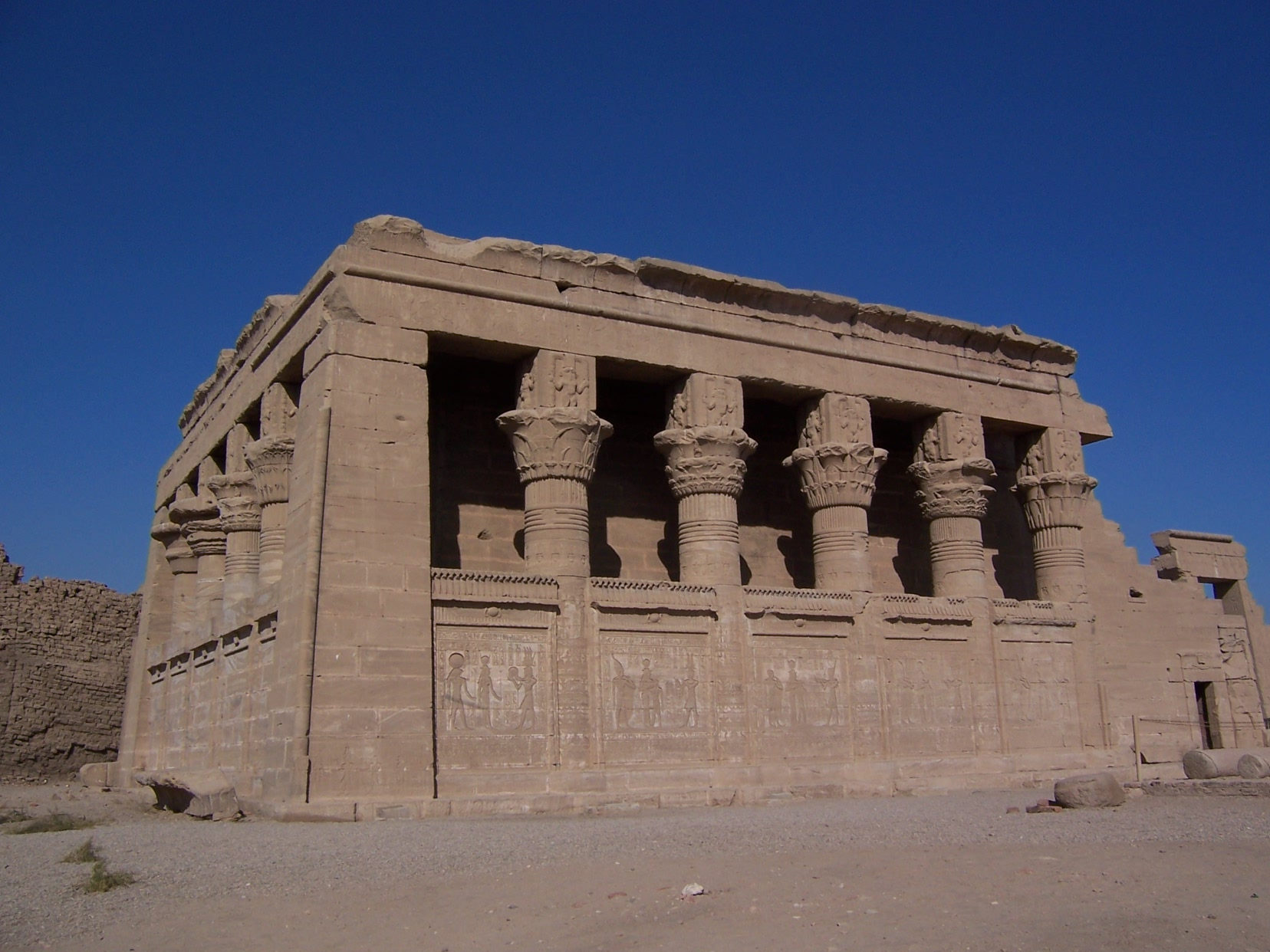 Dendera Hathor Temple Complex location: near Qina, Egypt